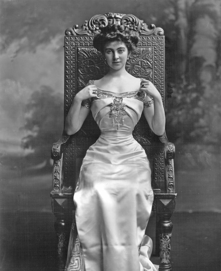 Constance Edwina Cornwallis-West (1876-1971), first wife of Hugh Grosvenor, 2nd Duke of Westminster